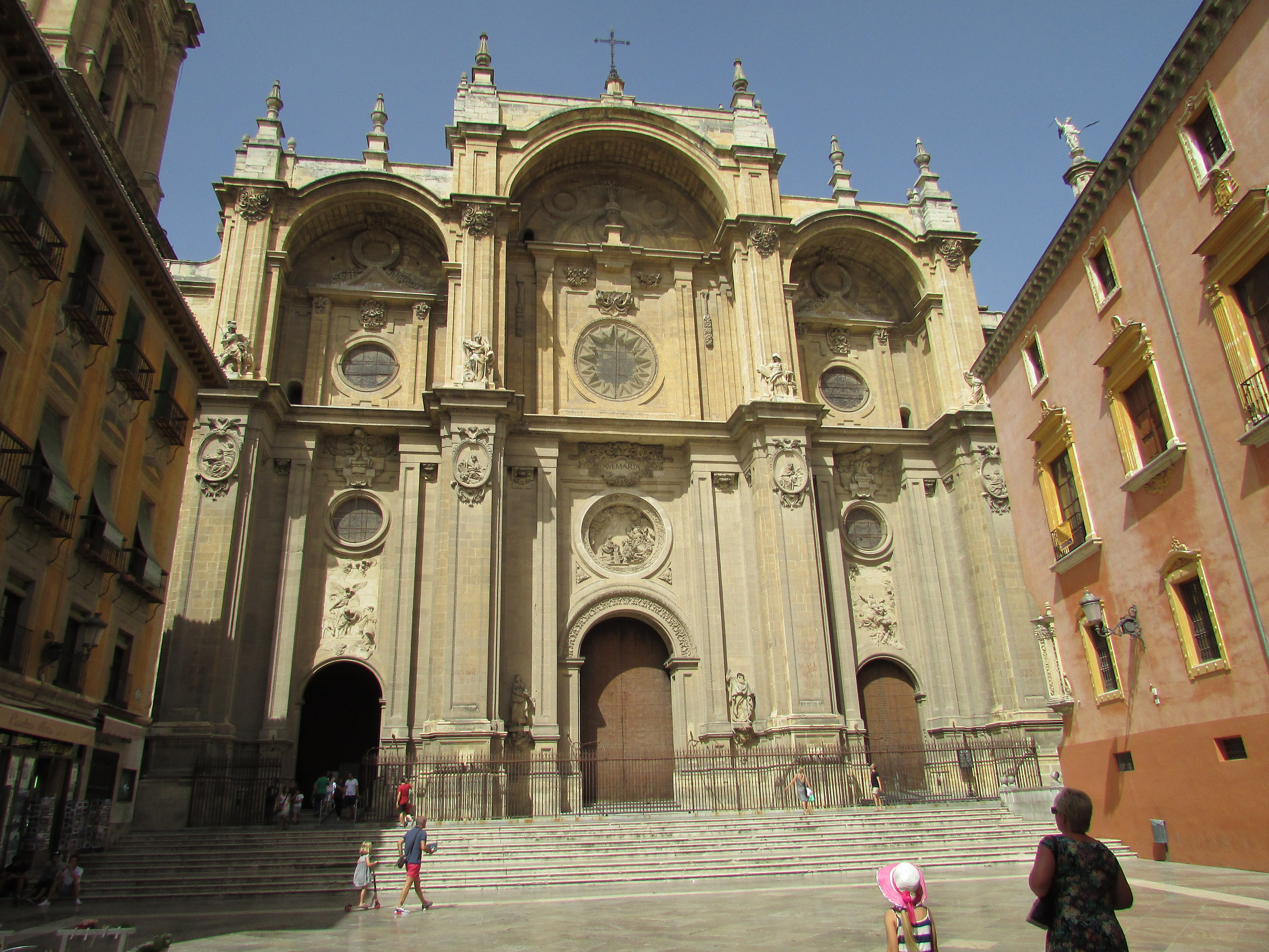 The west door of Granada Cathedral located on Plaza de las Pasiegas within the city of Granada, Andalusia, Spain.